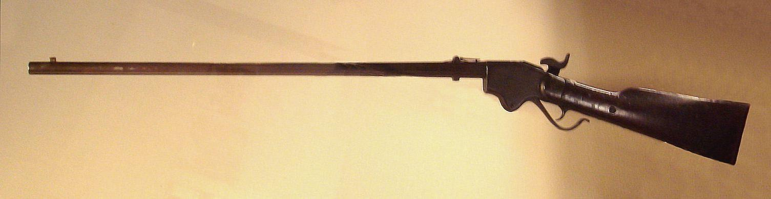 Similar to another image but swapped it so the hammer and lockplate are on the right side.